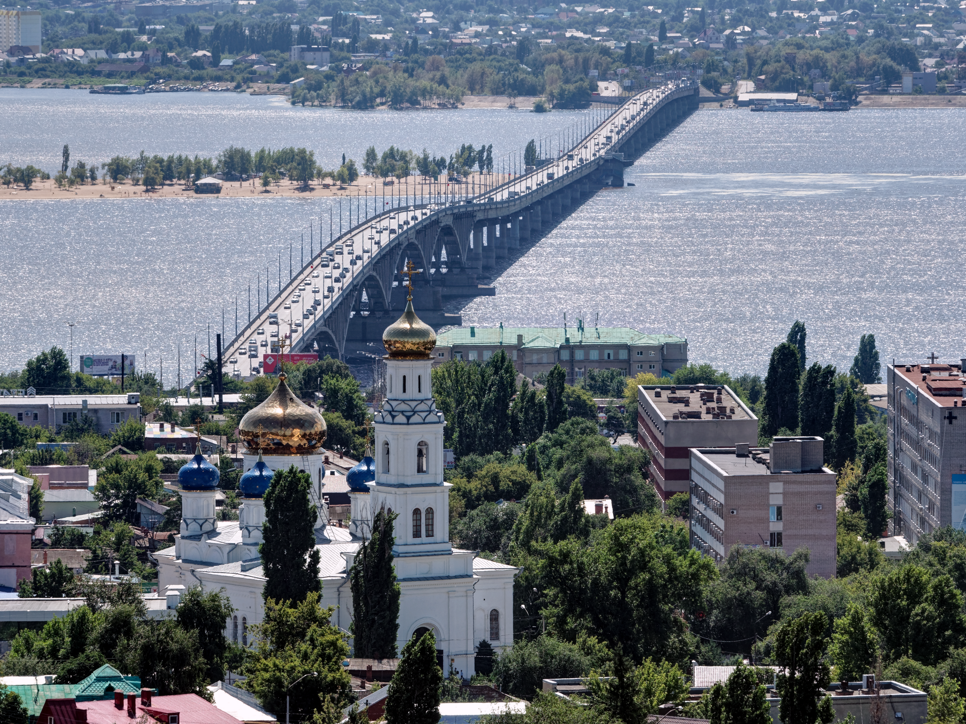 Saratov Bridge. Holy Spirit Cathedral.